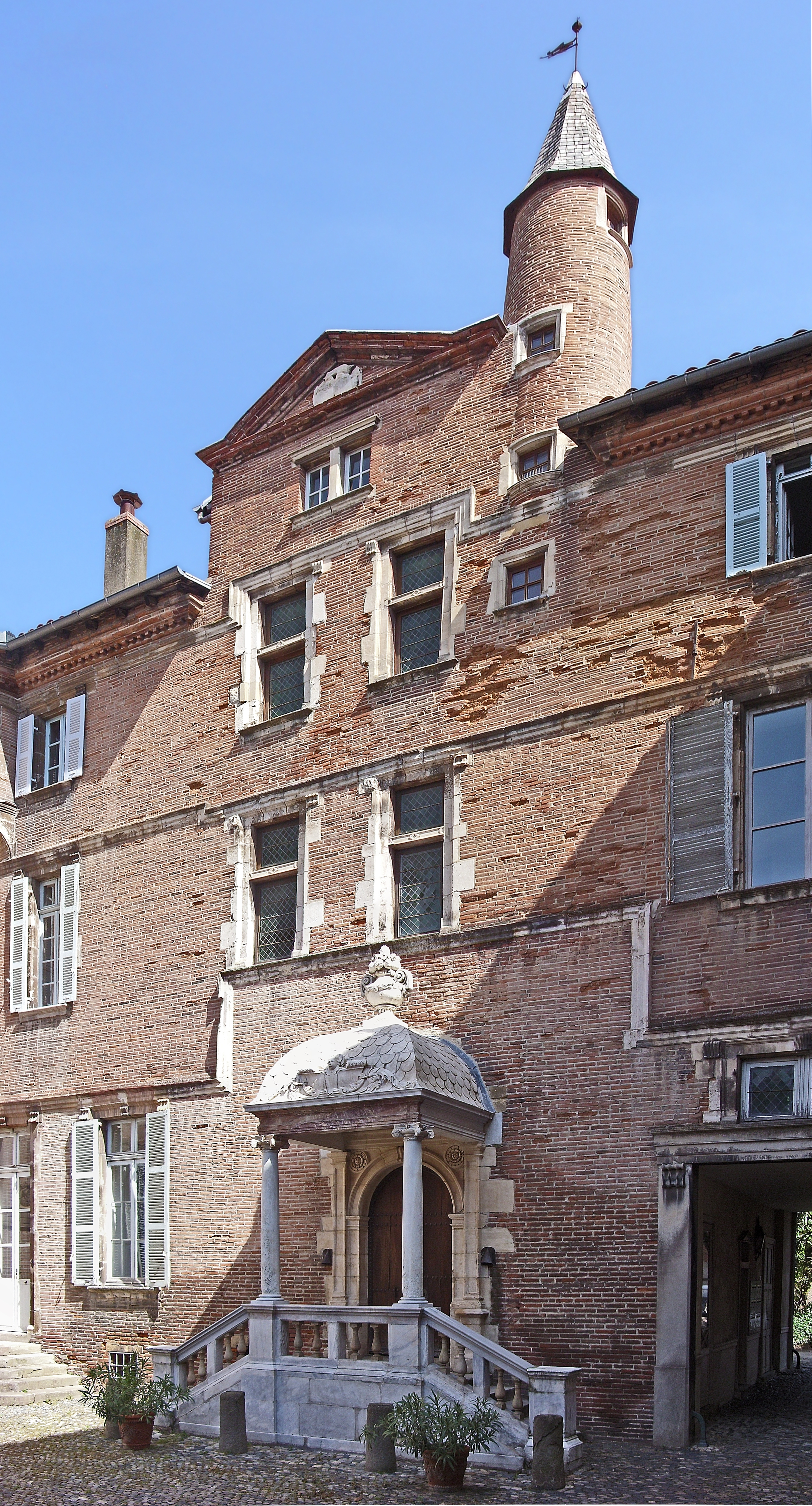 Hôtel d'Ulmo in Toulouse. Facade.